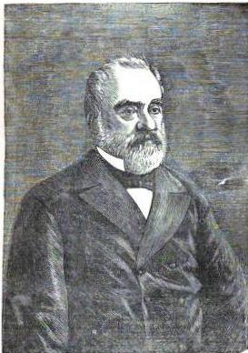 Poikilē stoa: ethnikē eikonographēnenē epetēris ... Etos 1-16, 1881-1914 (1881) Author: Ioannes A. Arsenēs , Michael A . Raphaelobits Volume: 1-2 Publisher: Estia Year: 1881 Possible copyright status: NOT_IN_COPYRIGHT Language: Greek Digitizing sponsor: Google Book from the collections of: Harvard University Collection: americana